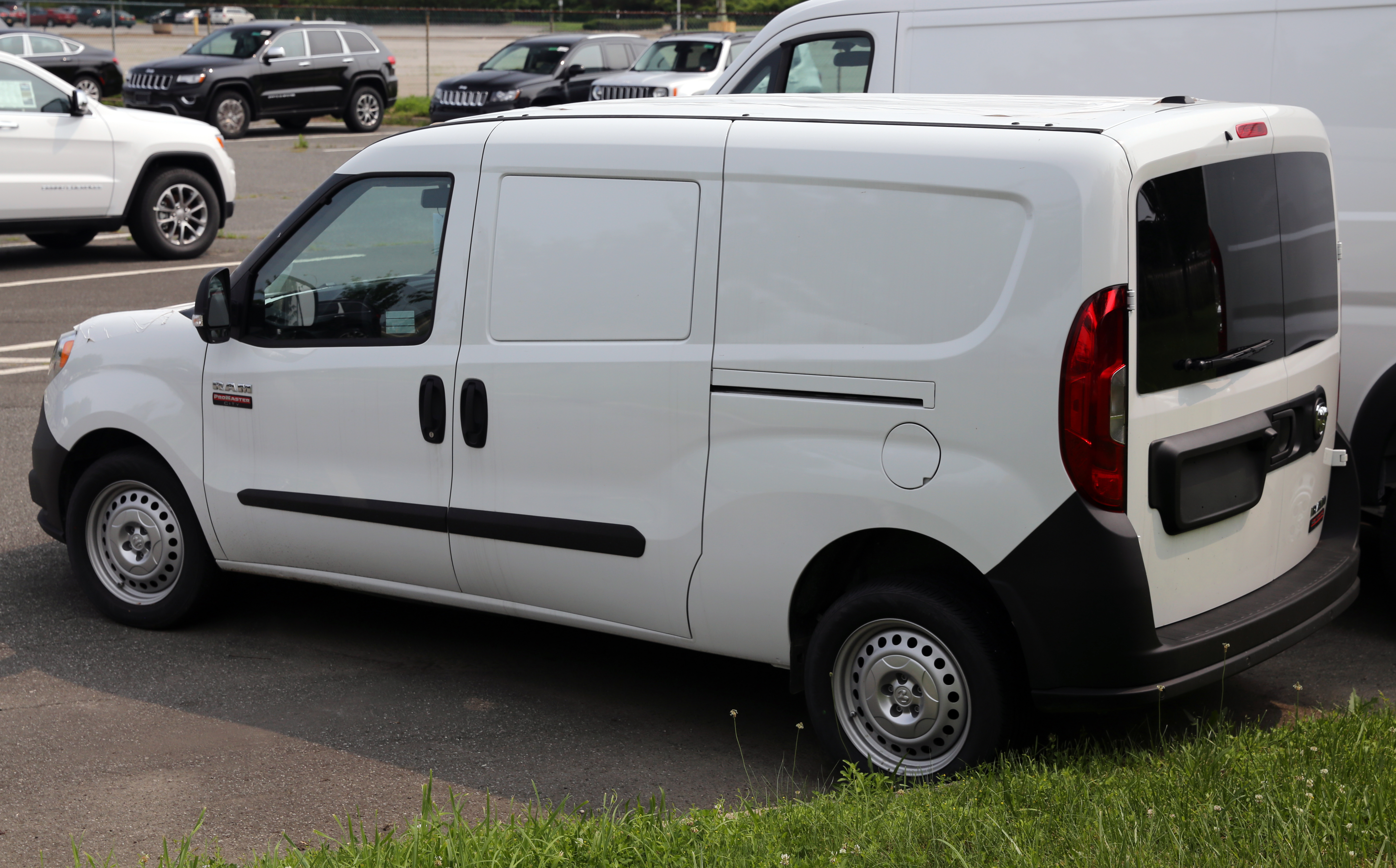 A 2015 Ram ProMaster City Cargo Van in Bright White, interior color B7X9 (poetic), and the 2.4-liter MultiAir inline-four and a nine-speed 948TE automatic transmission. Also has the Tradesman package, with various extras including an extra rear side door.